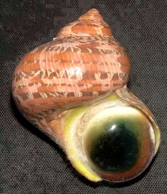 Photograph of the seashell Turbo petholatus Linnaeus, 1758[1]; underside / Origin of image: Own collection. Philippines. Zamboanga Island. Photograph with edited details. Occurs in the Central and Western Pacific, in shallow reefs. Operculum green is called "cat's eye". ABBOTT, R. Tucker; DANCE, S. Peter (1982). Compendium of Seashells. A color Guide to More than 4.200 of the World's Marine Shells. New York: E. P. Dutton. p. 46. 412 pp. ISBN 0-525-93269-0